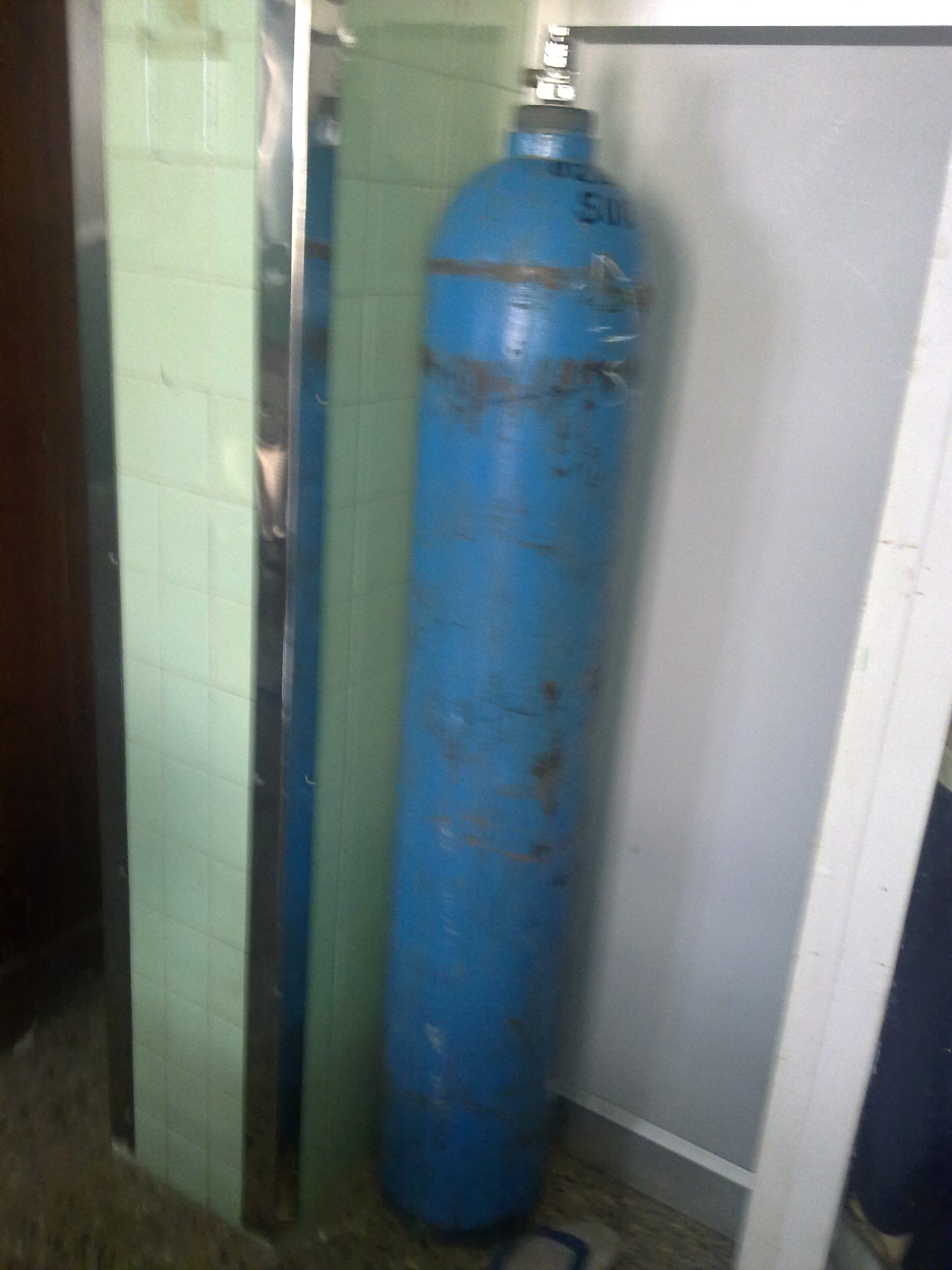 Picture showing an oxygen cylinder for use in hospitals